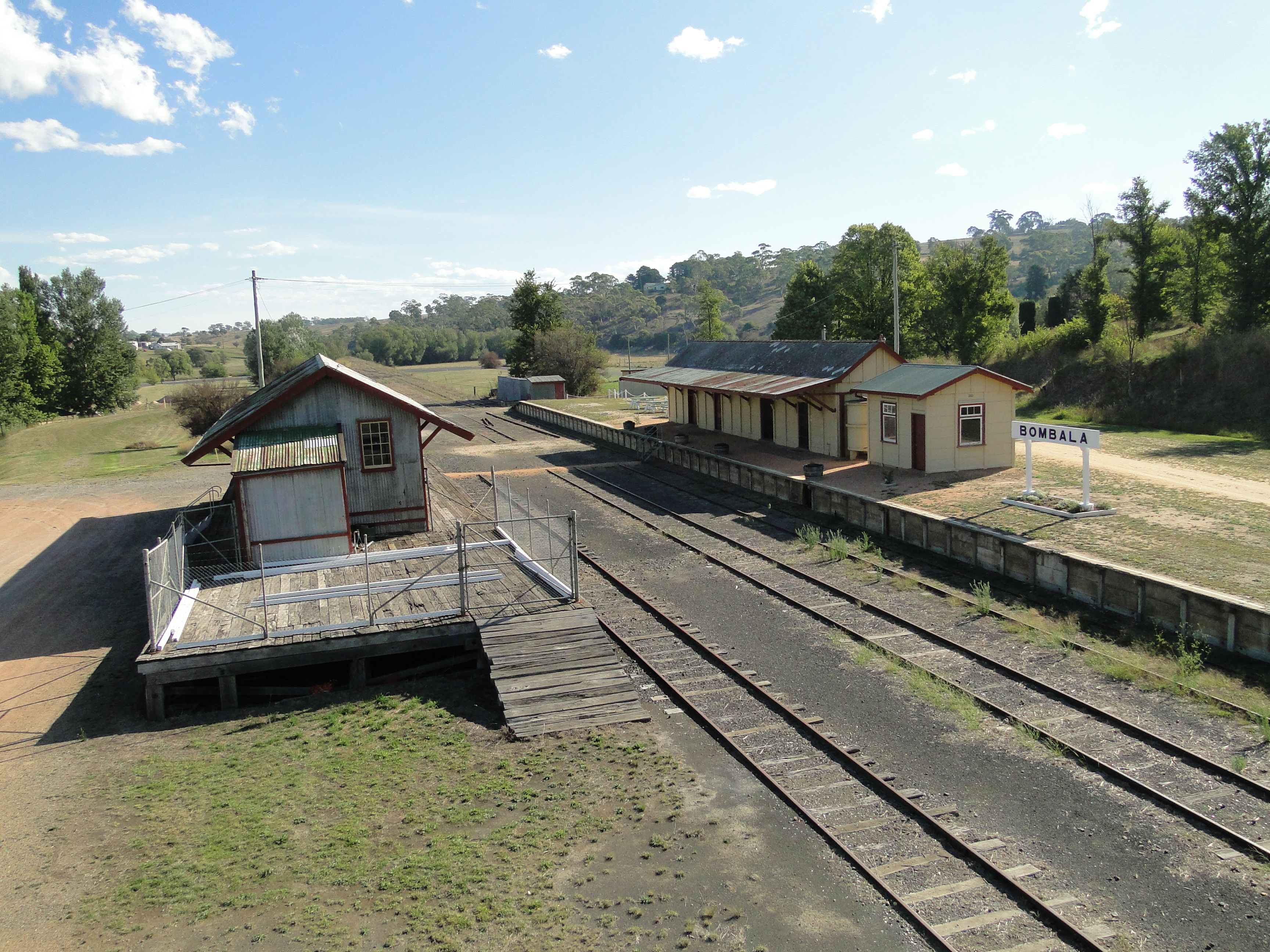 The disused railway station at Bombala New South Wales, viewed from the footbridge